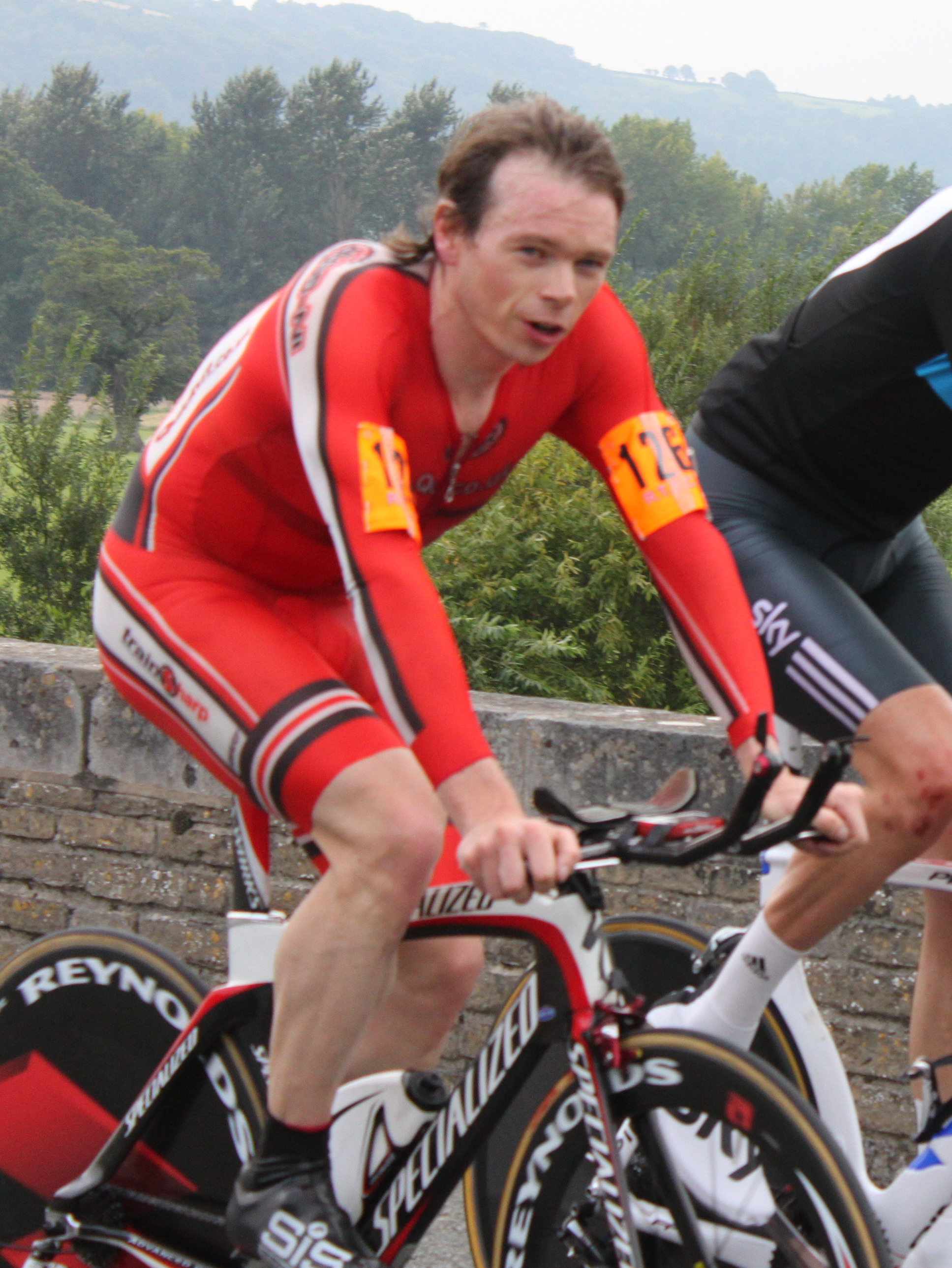 British Time Trial Championships 2010 Michael Hutchinson - Bradley Wiggins just after finish of BTTC.